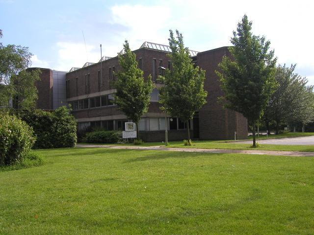 University of Reading, Bulmershe Court. This is part of the Bulmershe Court Campus in Woodley (though the postal address is Earley!)